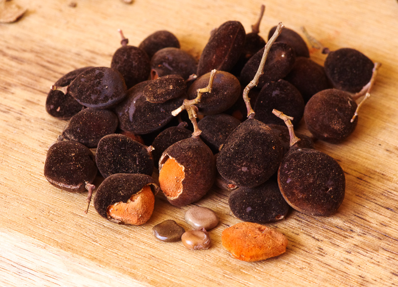 Dialium guineense fruit, shelled fruit, and seeds. Mbour, Senegal.